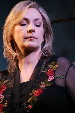 Irish singer, Moya Brennan in 2006